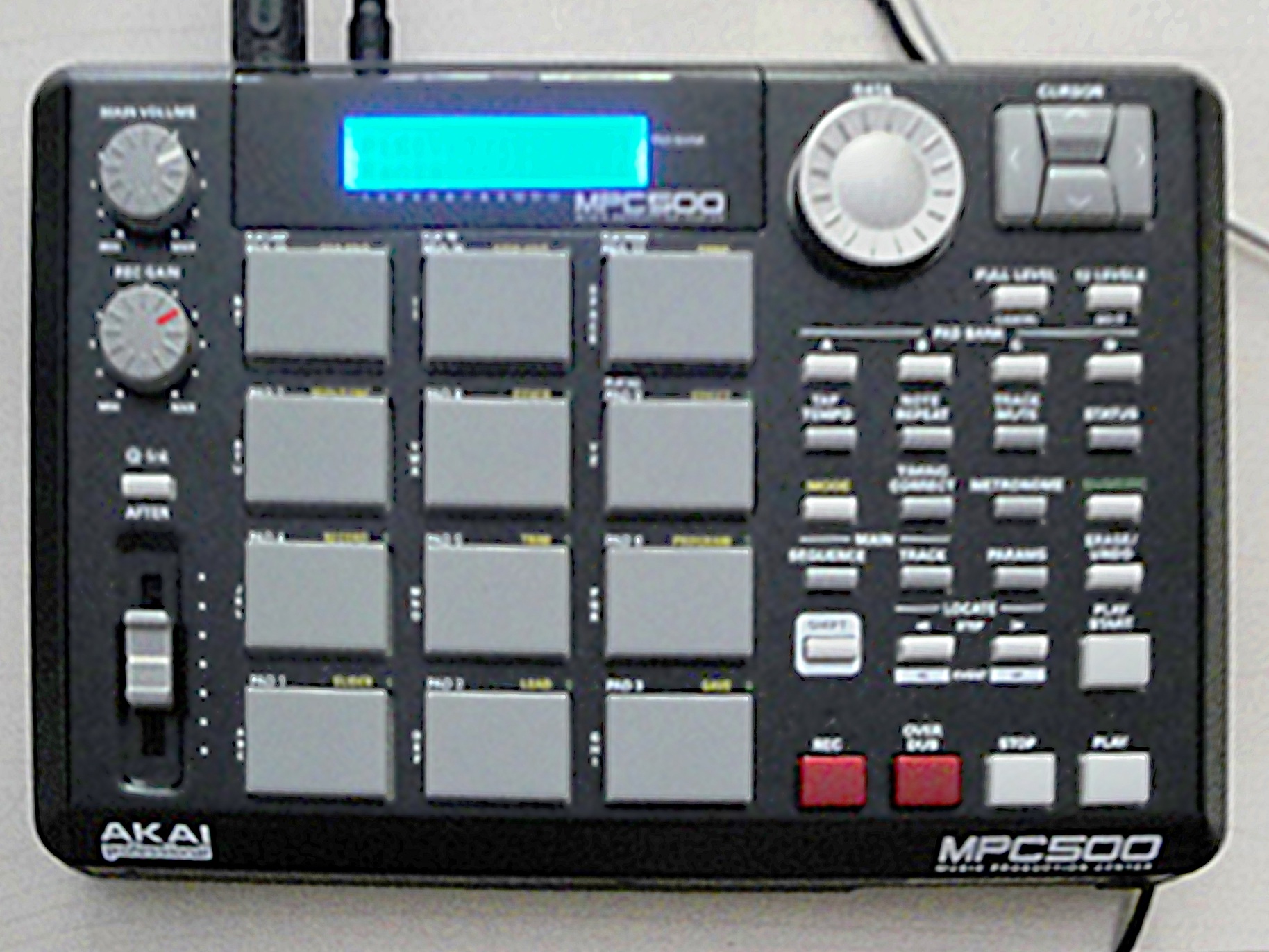 Akai MPC500, Max / MSP / Jitter Workshop with Gideon Kiers (Telcosystems)